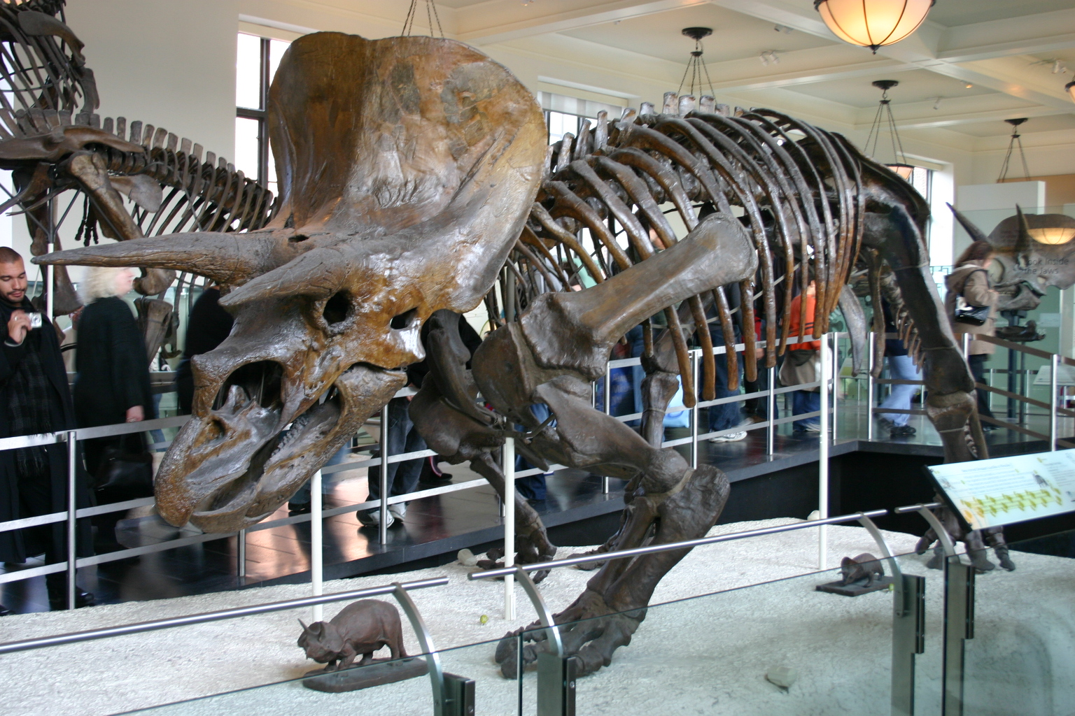 three-horned face Visit my blog at